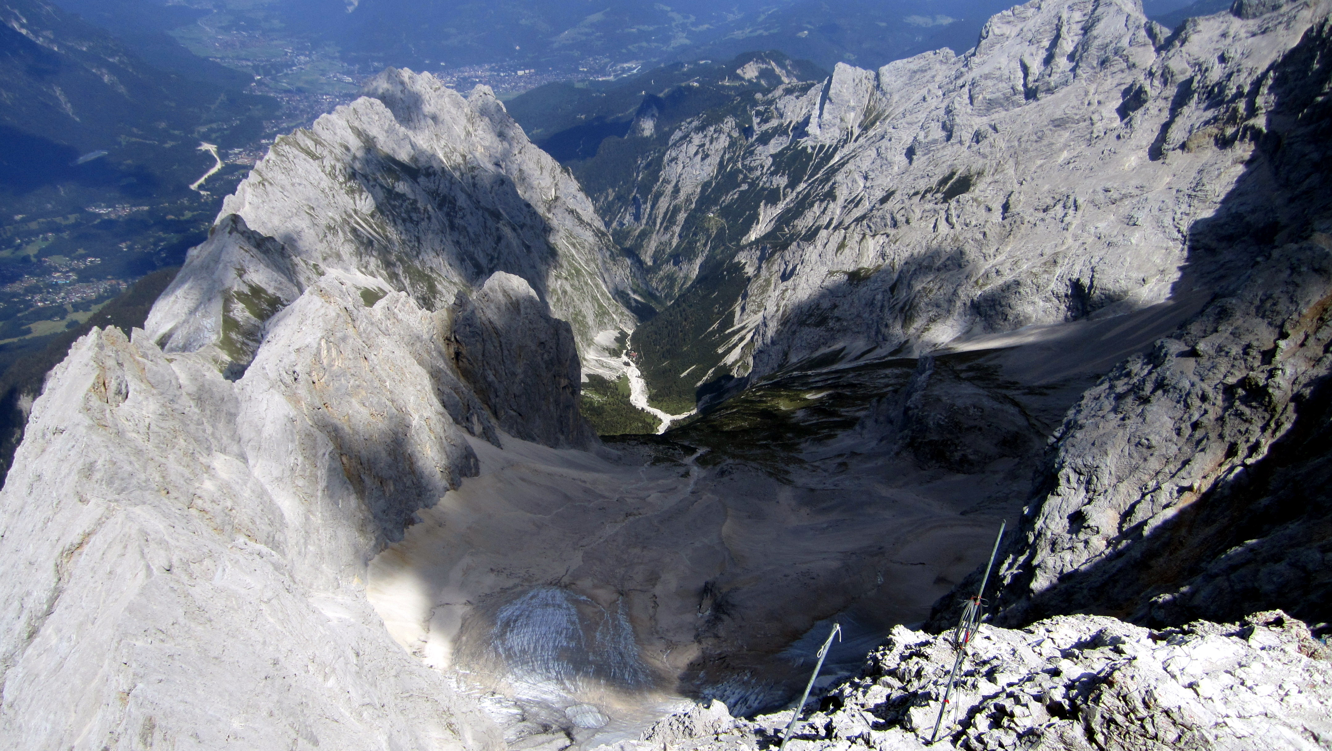 View from the Zugspitze down into the Höllental